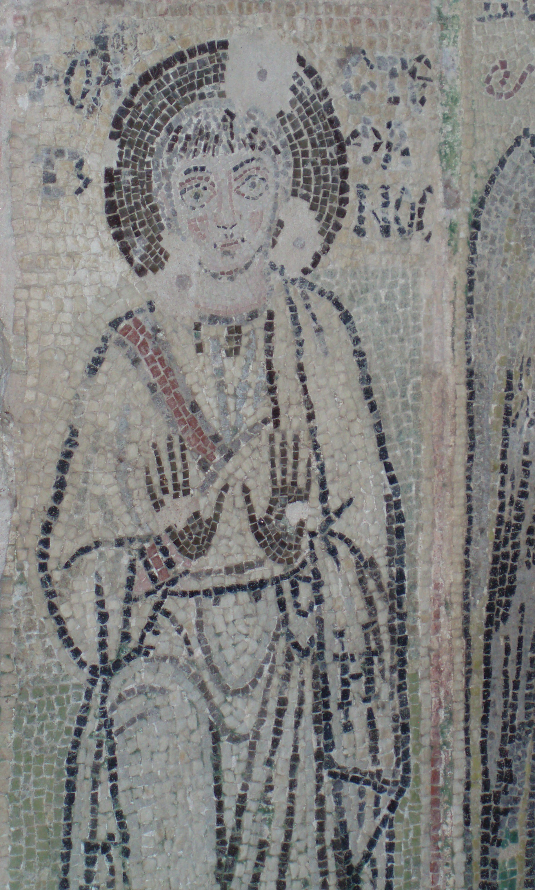 Old christian basilica under the amphitheater in Durrës, Albania. Palaeochristian mosaic.